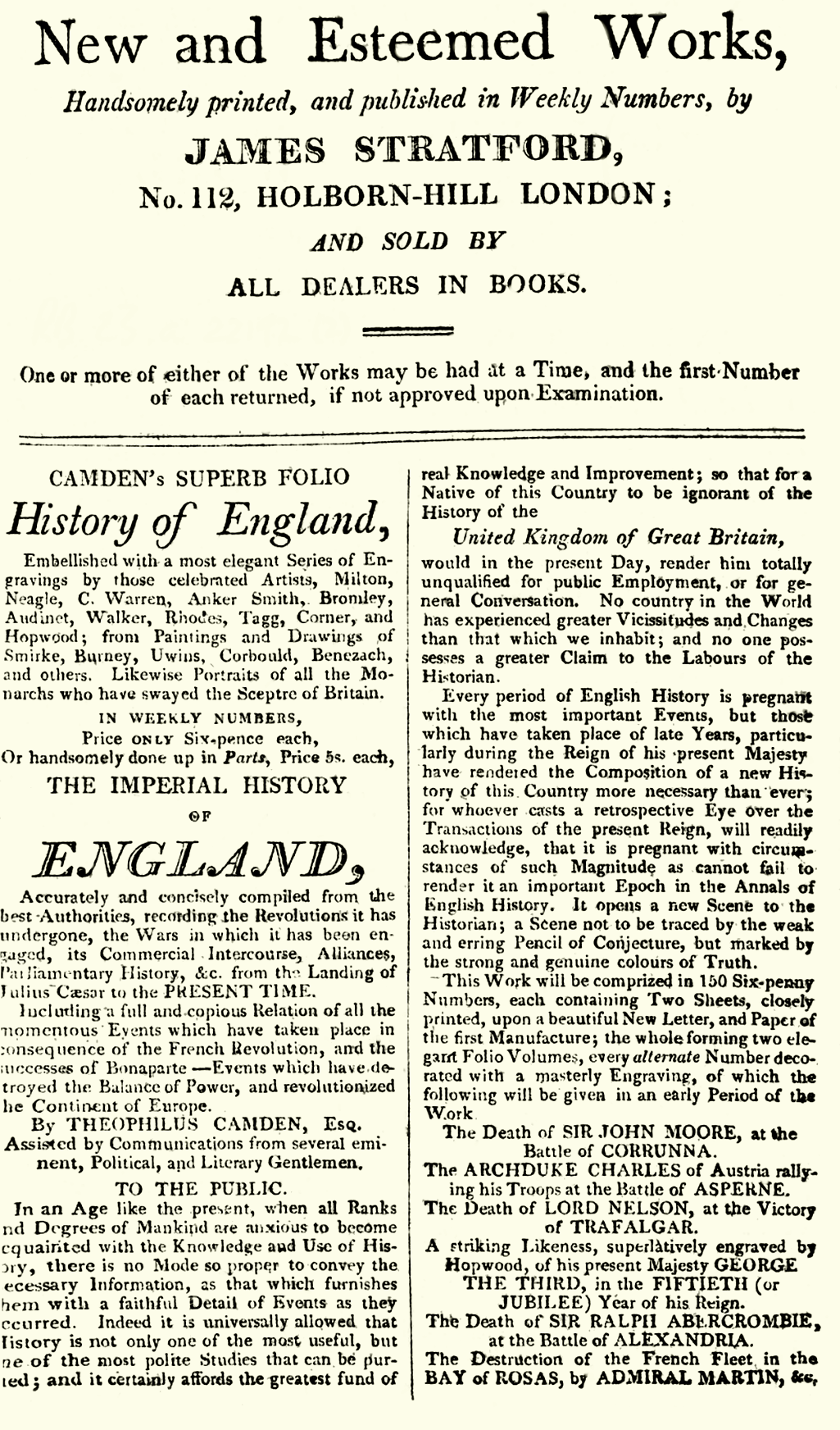 New and Esteemed Works, Handsomely Printed, and Published in Weekly Numbers by James Stratford